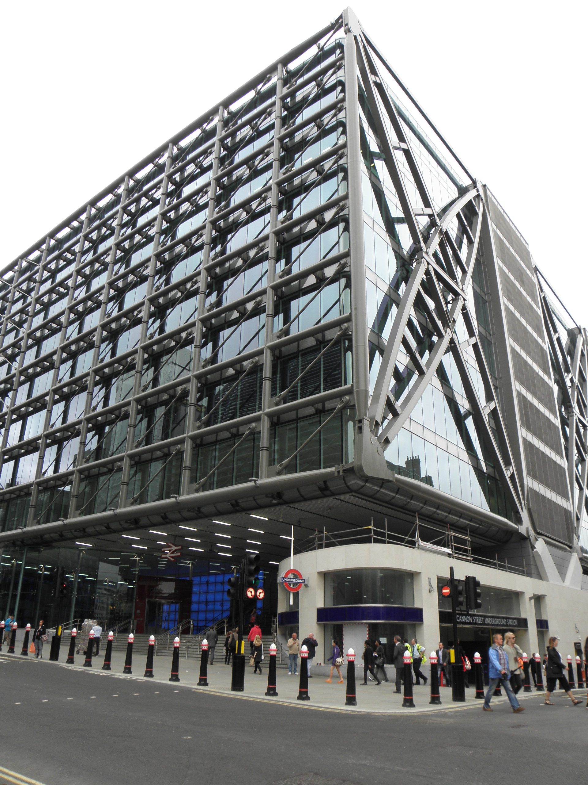 The new building above Cannon Street station, pictured in 2012. Tube station entrance immediately to the right of the corner, and main line entrance (western) immediately to the left.